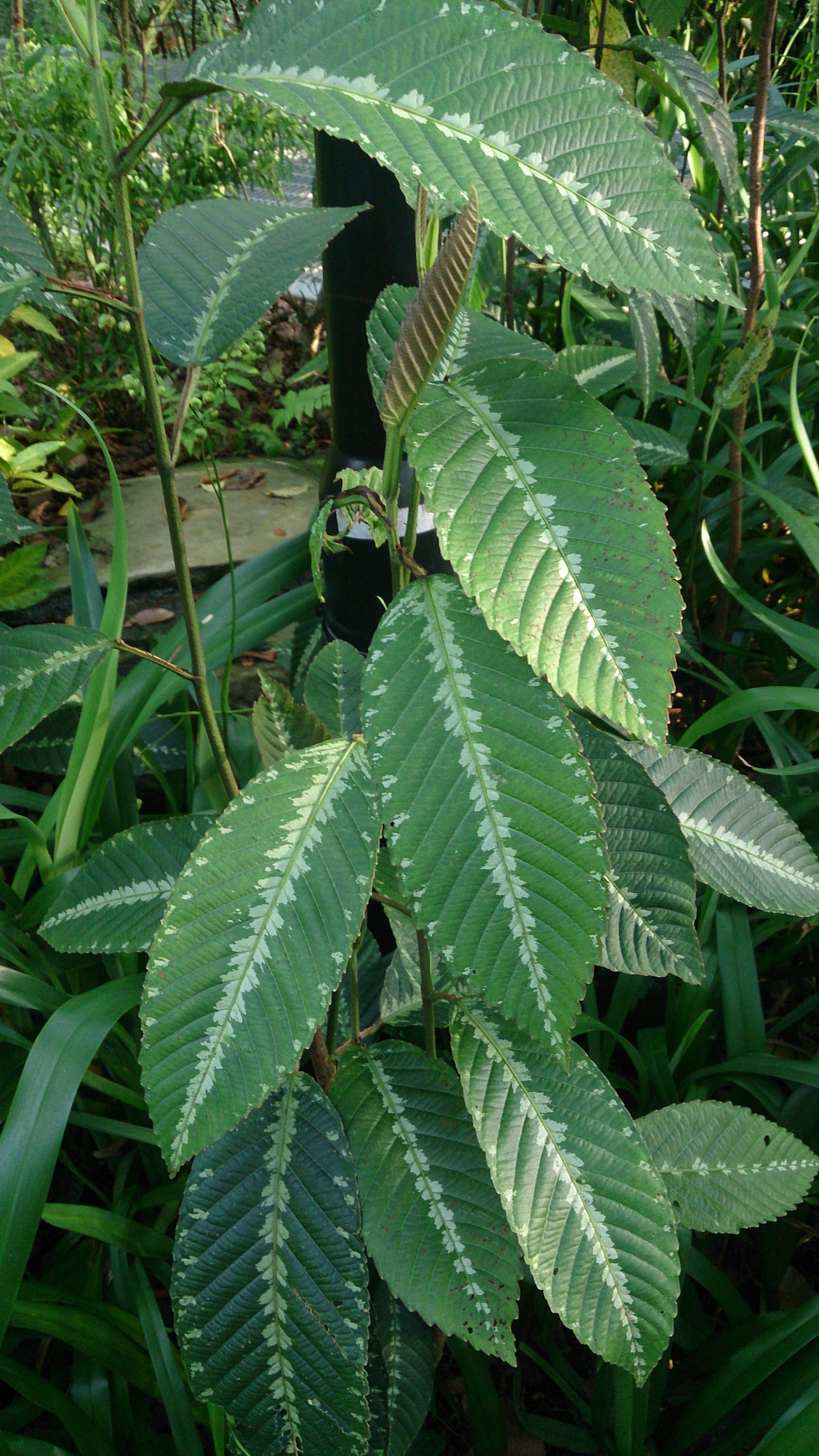 Leea zippeliana